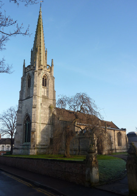 St Michael's Church, West Retford The tall spire is a landmark for some distance around. West Retford was the first place to develop, but was overtaken by East Retford. Now the whole town is often referred to simply as Retford.